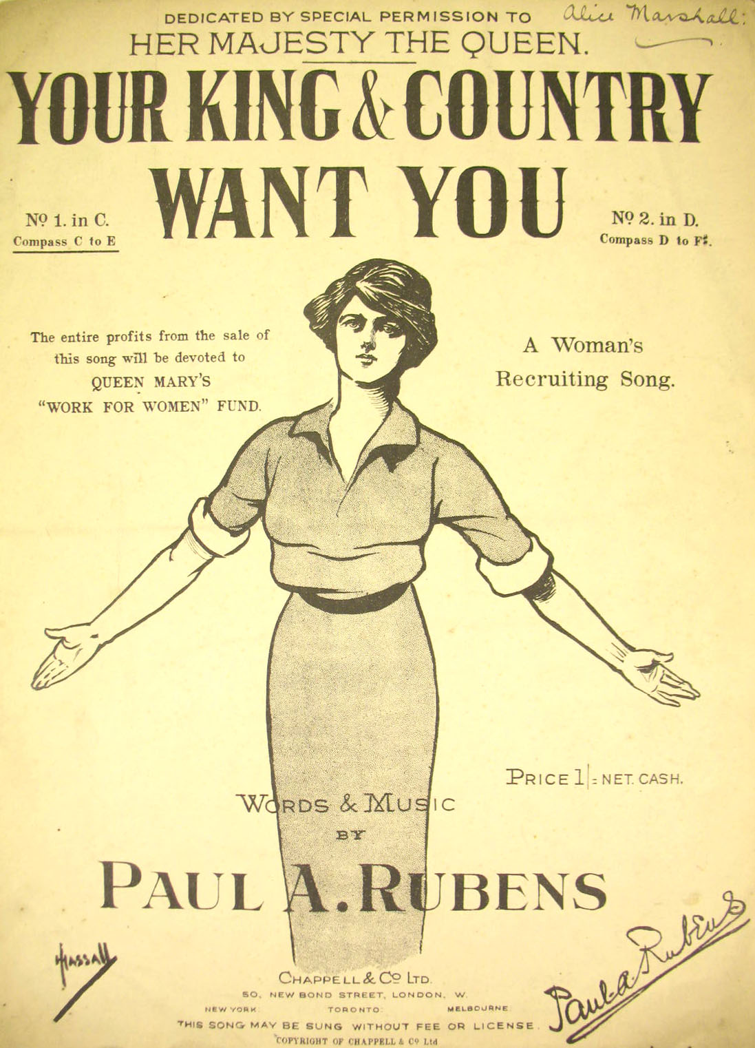 The front cover of the sheet music for the World War 1 song: "Your King and Country Want You".